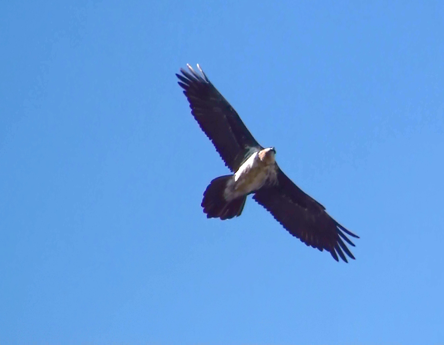 Adult Lammergeier or Bearded VUlture, Gypaetus barbatus, in flight over the pre-Pyrenees of Lleida, Catalonia, northeast Spain.Aragonés: Trencauesos adulto, fotografiato quan volaba por alto d'o Preperineu de Leida, (Catalunya).